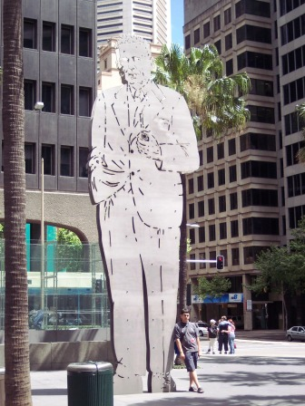 Statue of Ben Chifley in Chifley Tower Plaza.